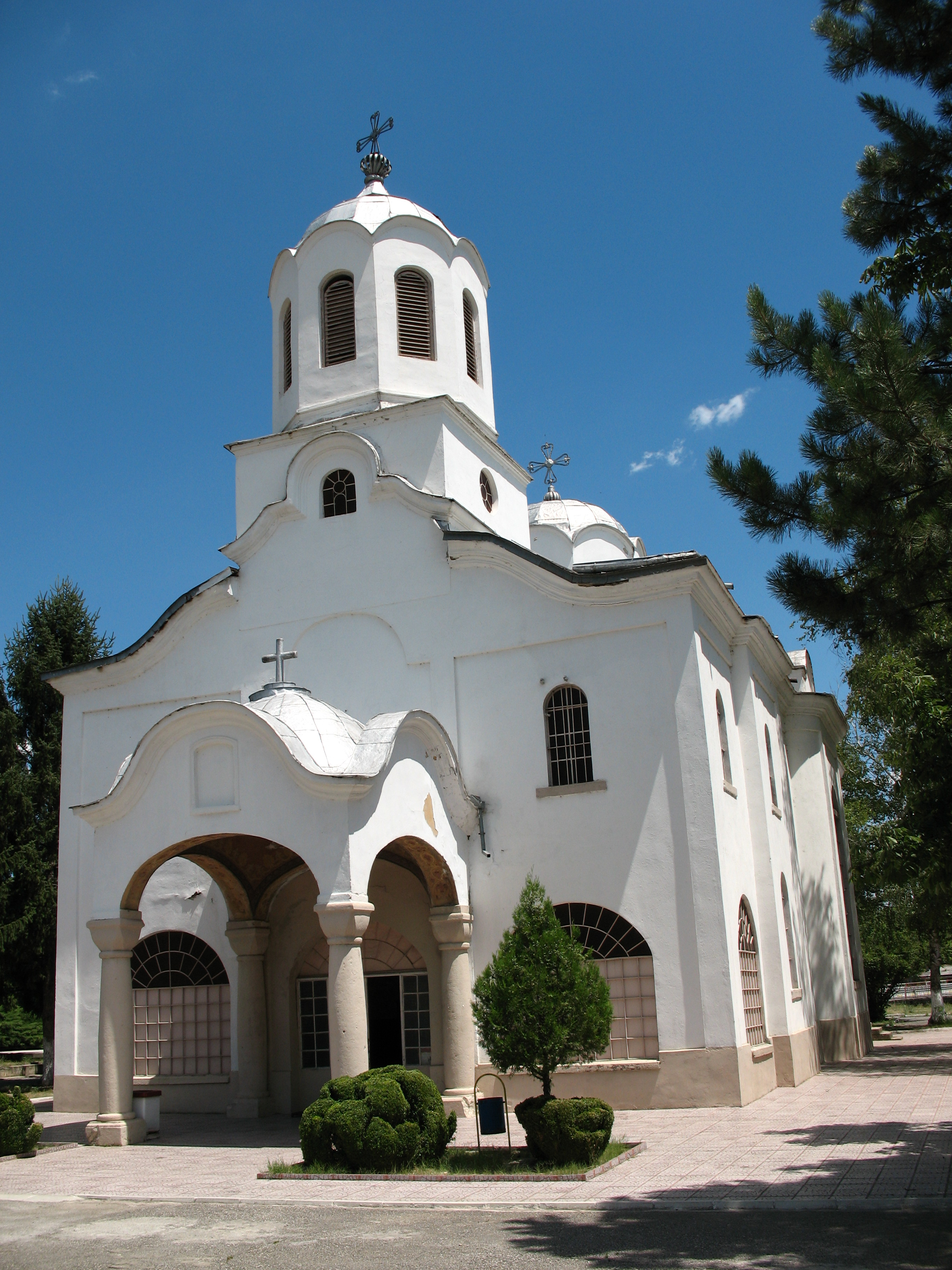 The church in the centre of Lukovit, Bulgaria